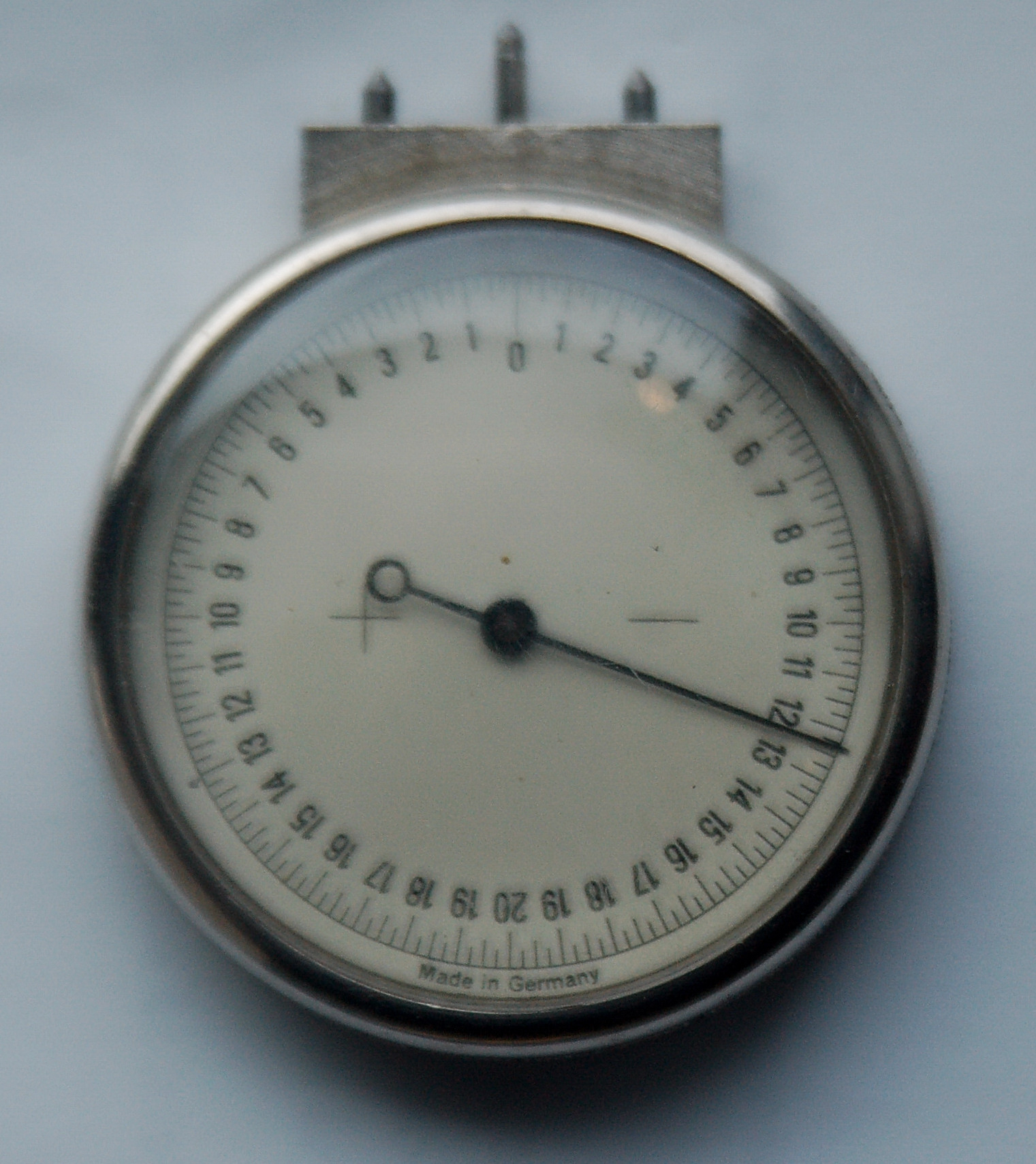 Spherometer